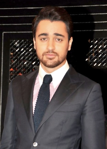 Imran Khan on the sets of The Front Row with Anupama Chopra